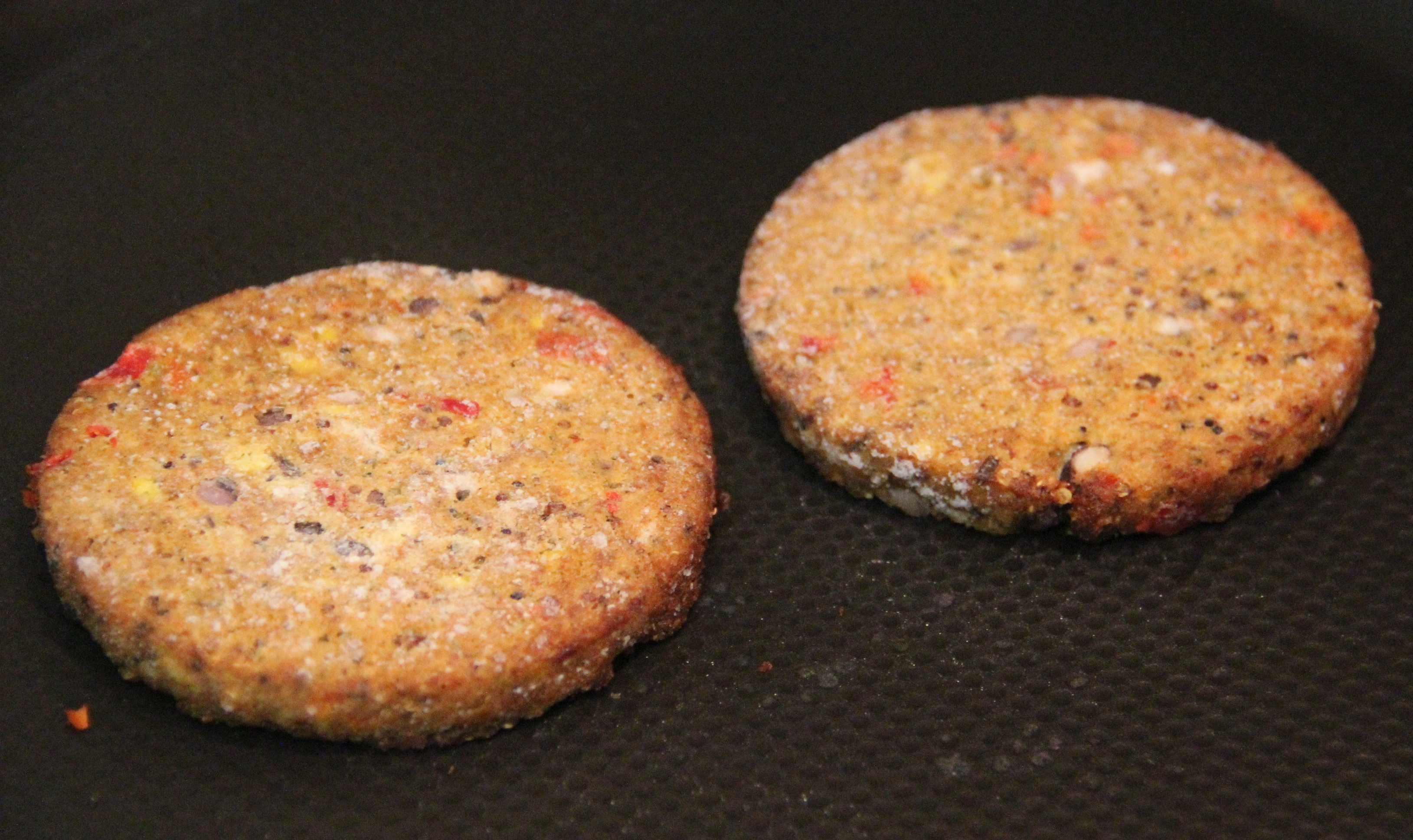 Two Dr Praeger's burgers cooking